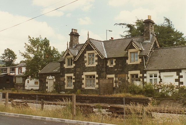 Cemmaes Road station building, platform side Taken after it had been converted into residential accommodation. The central building (which the square boundary passes through) was the stationmaster's accommodation, while the building partly visible on the right was the booking office and waiting room. Very solid stone construction was used for all the stations of the Newtown & Machynlleth Railway. The road visible in the foreground had just been built, to avoid the need for a level crossing to the west of the station.